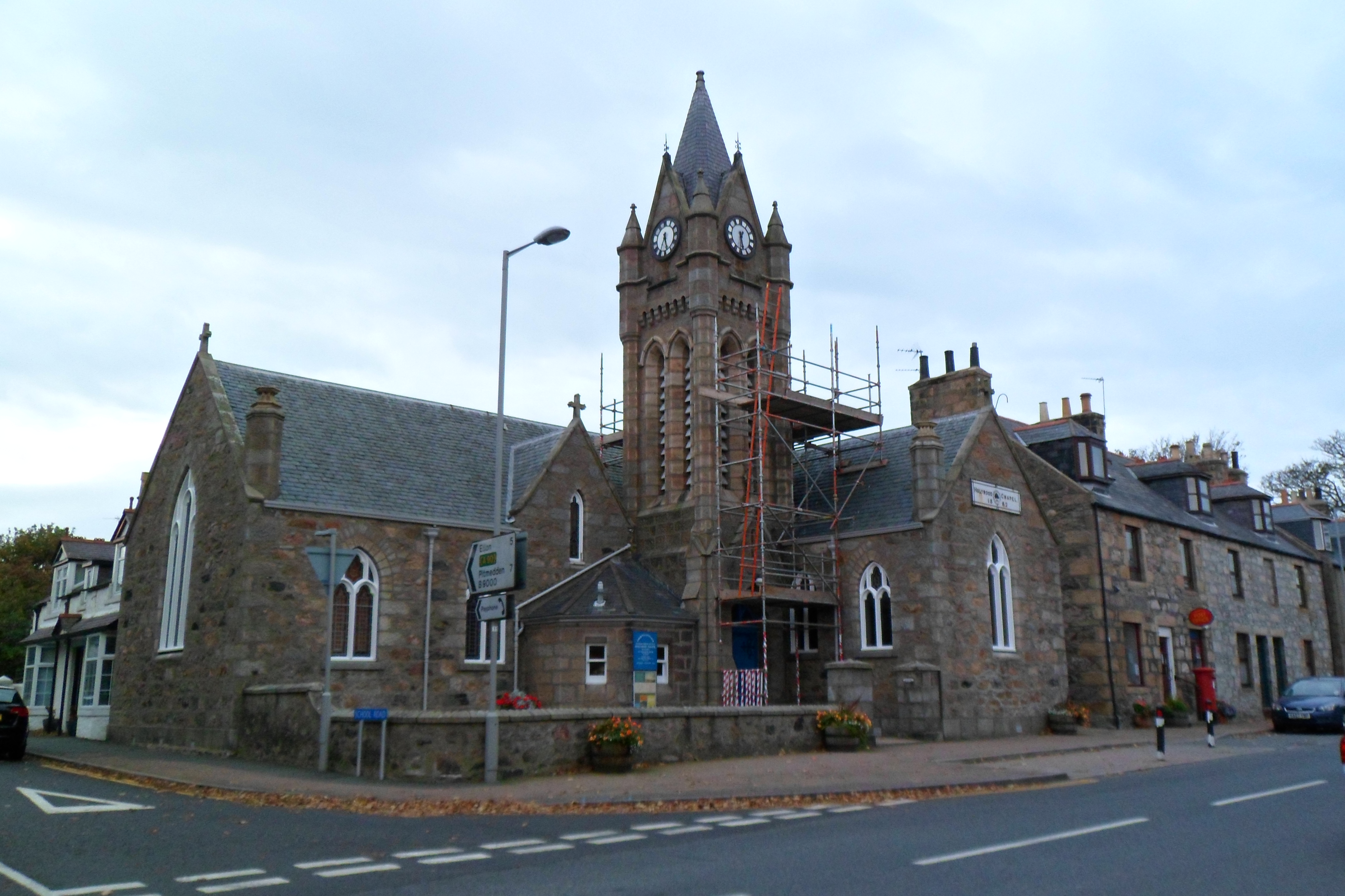 Holy Rood Chapel in Newburgh, Aberdeenshire in October 2011